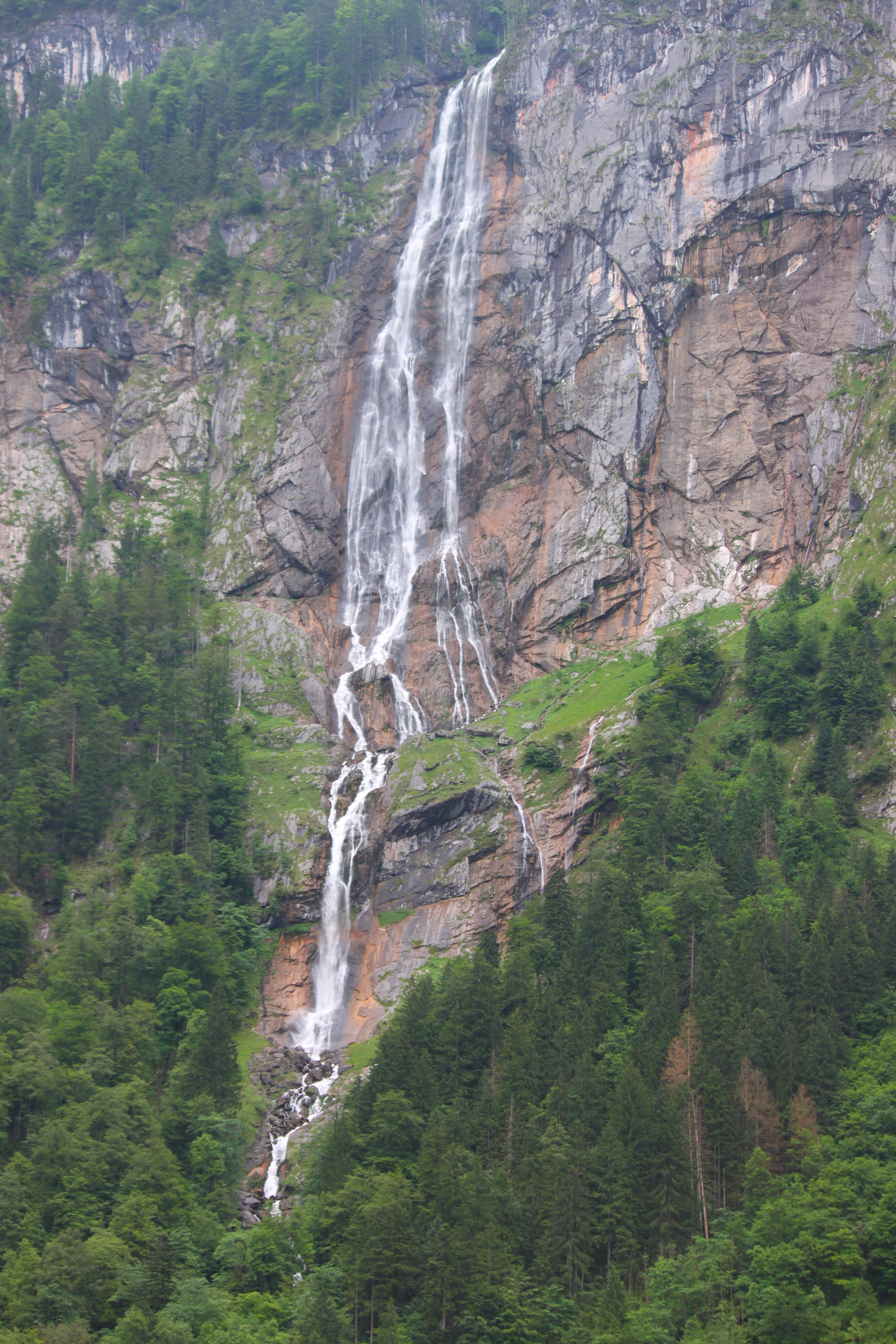 The Röthbach Waterfall above the Fischunkelalm